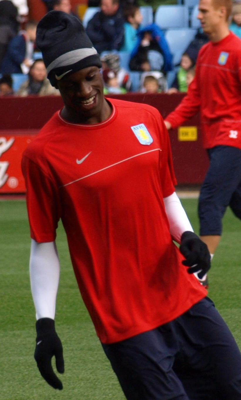 Picture by Gus Stephens